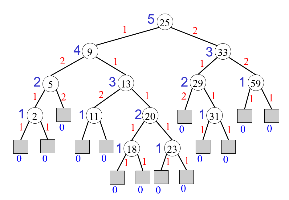 wavl tree